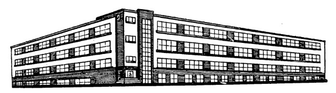 School of Jewish Schools Society, Częstochowa, ulica Jasnogórska 8